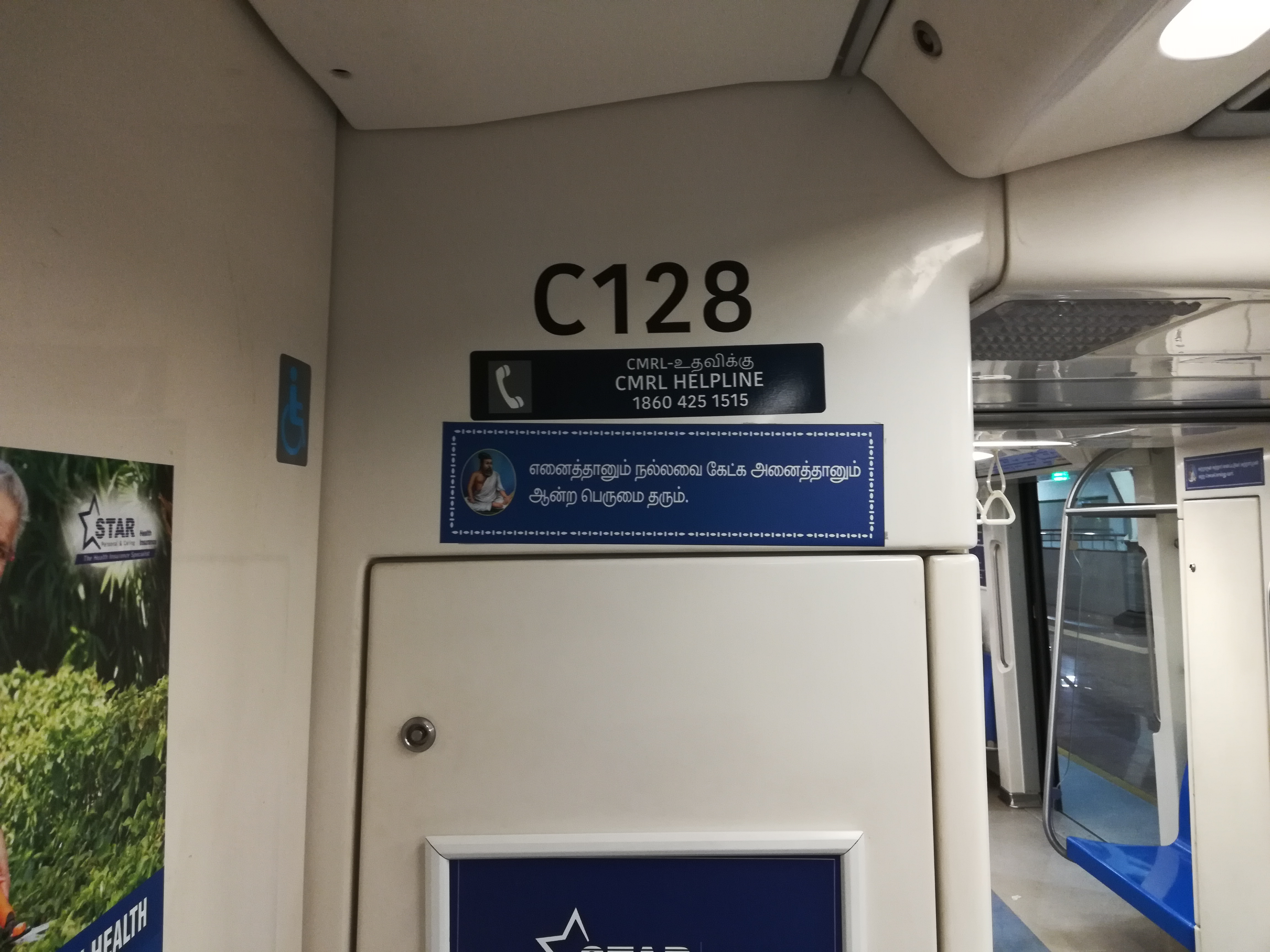 Kural on display inside a Chennai Metro train, taken on 18 November 2018